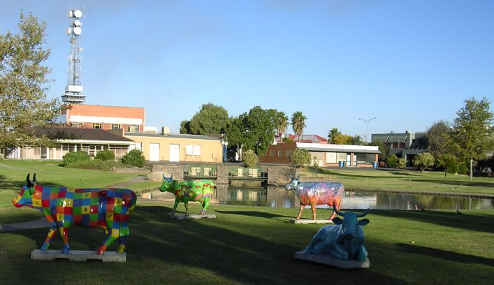 Shepparton cow parade